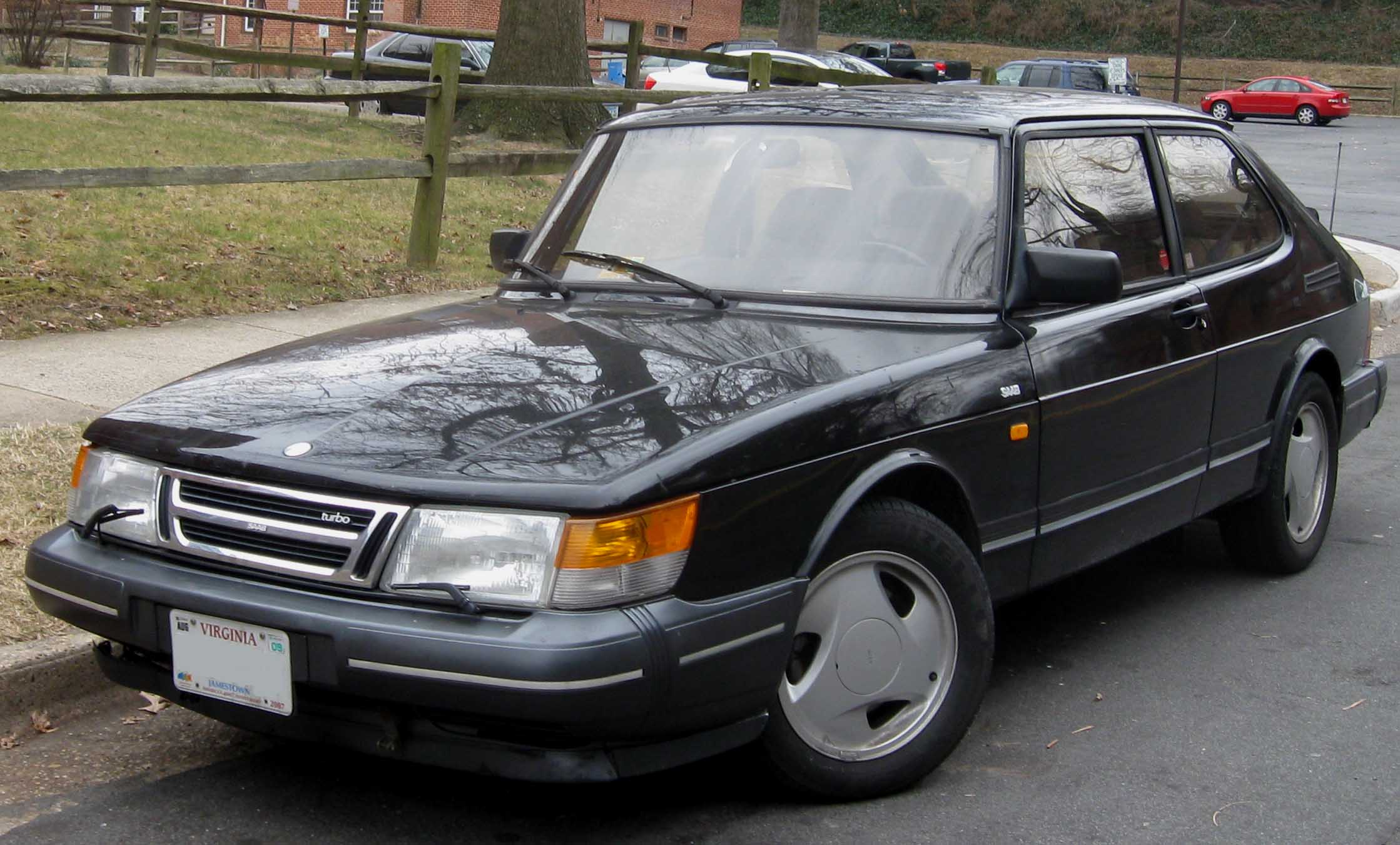 Saab 900 photographed in Alexandria, Virginia, USA.